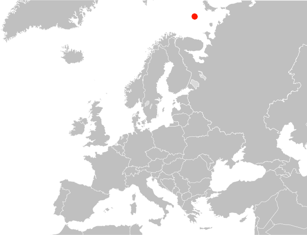 Shtokman field